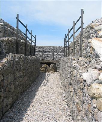 An original photographt taken be User:Maelor in June 2006